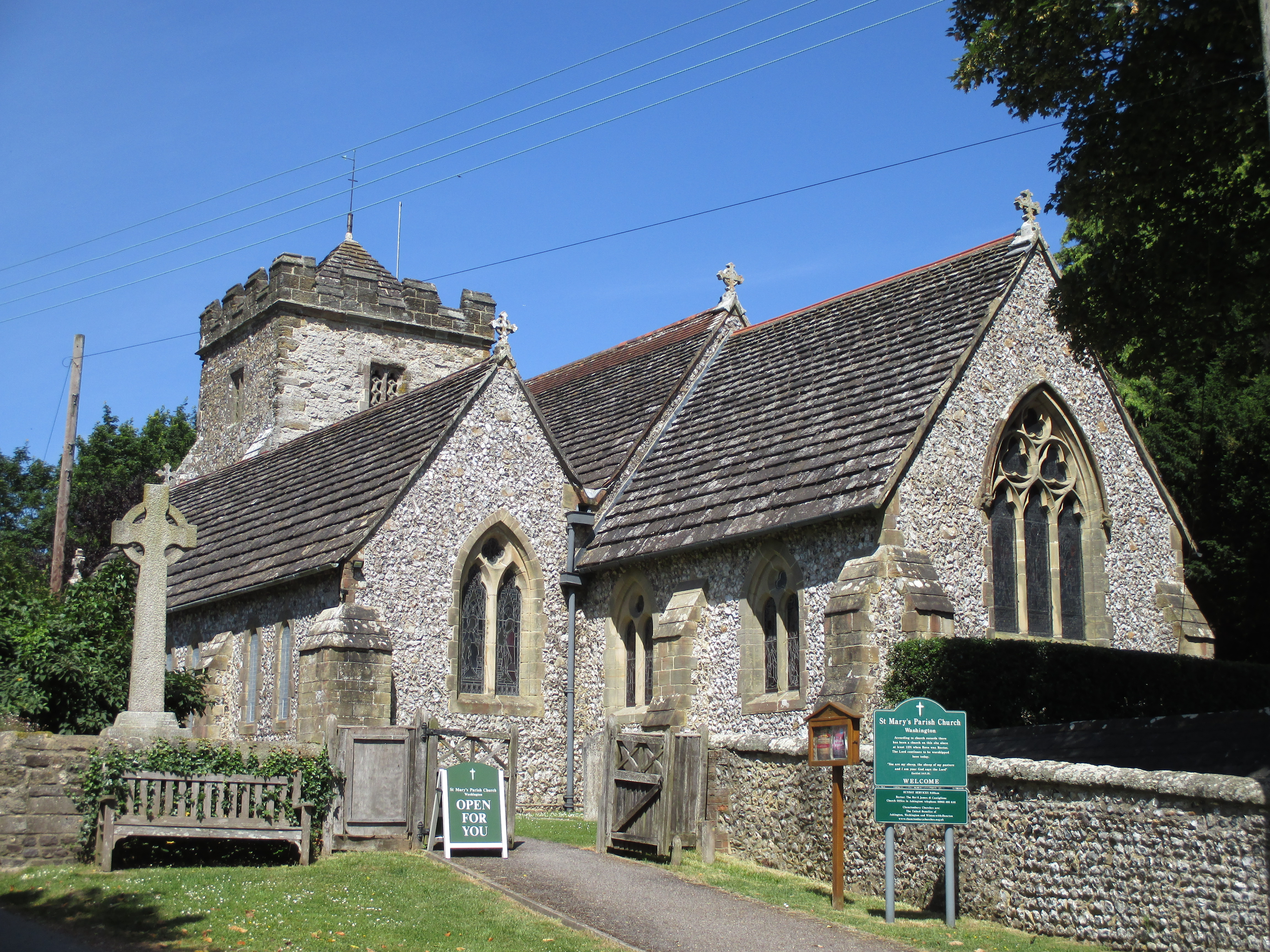 St Mary's Church, Washington, West Sussex, seen from the south-east.